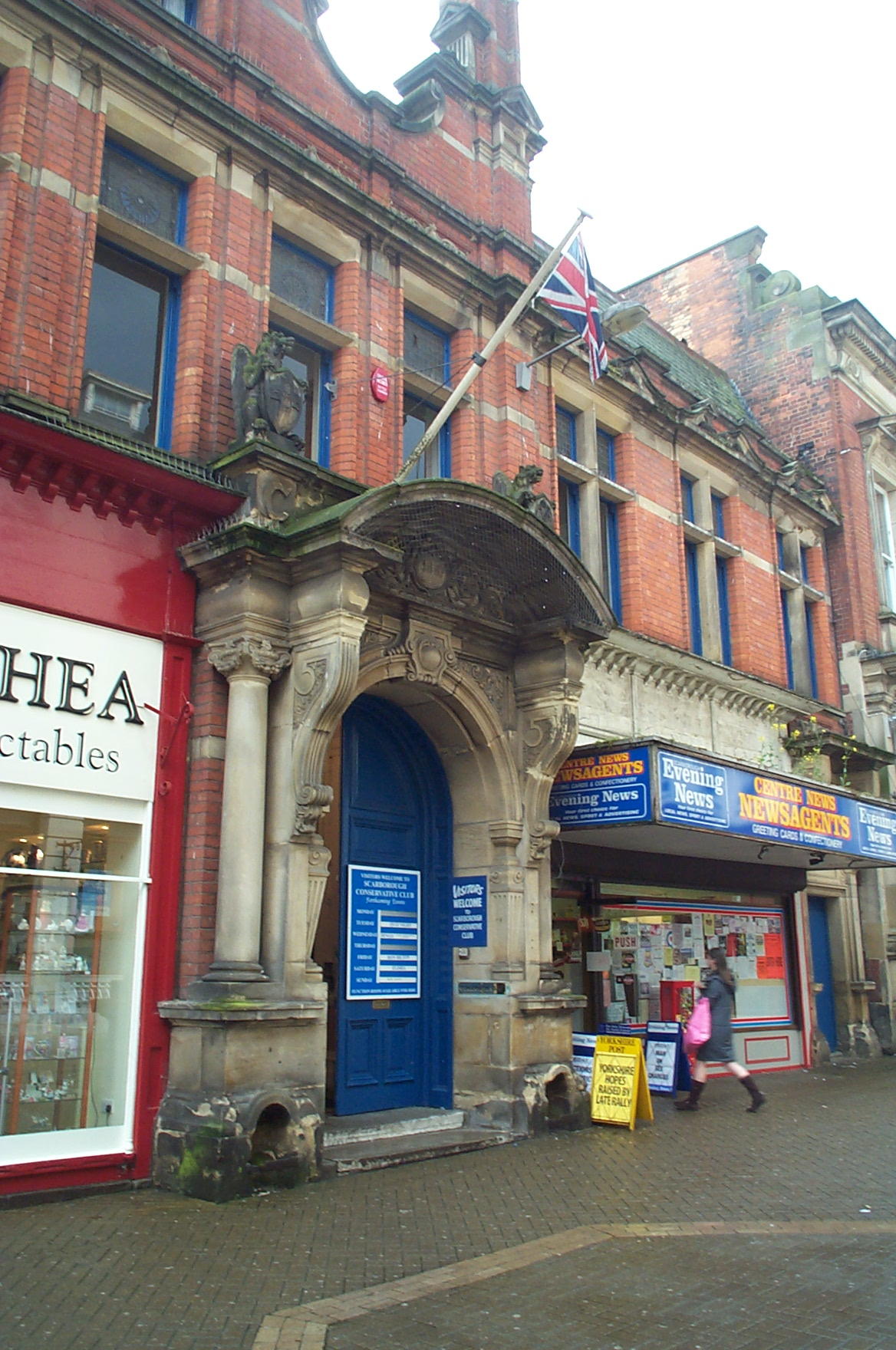 Scarborough Conservative Club